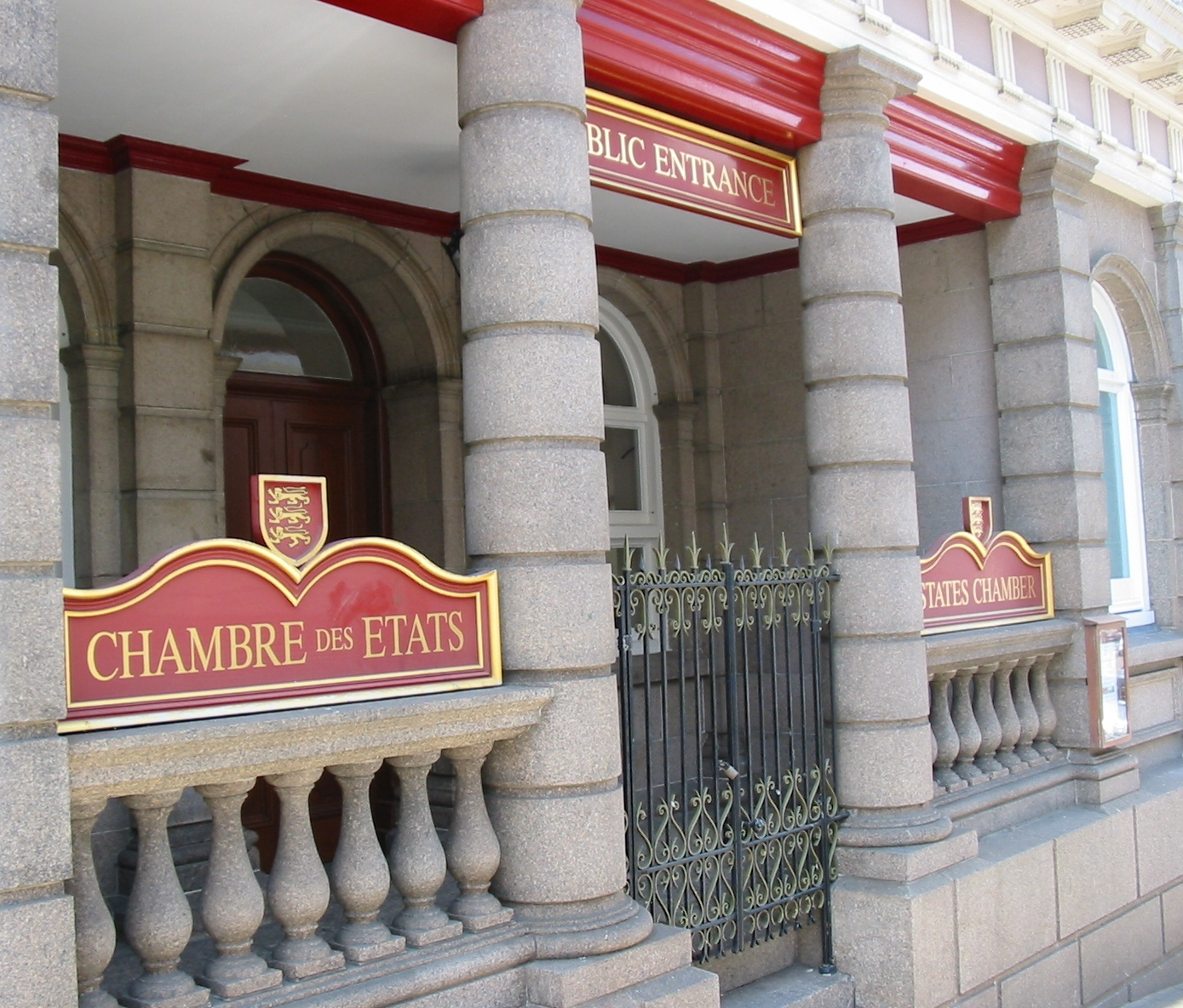 States Building, Jersey